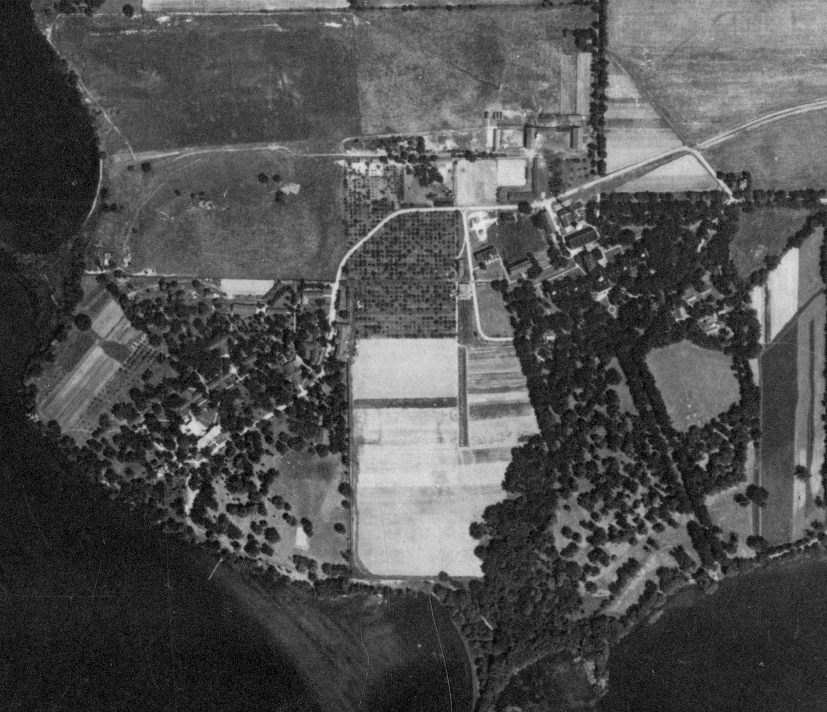 Mendota State Hospital complex (right) and Wisconsin Memorial Hospital campus (left), July 1937. Madison, WI Roll-Exp : 7-538 7/6/1937 Dane761937_7-539_7x9 Photograph Agency Source Information: The source agencies responsible for the original flights are the United States Department of Agriculture (USDA) and the United States Geological Survey (USGS). The vast majority of the state was flown by the USDA. Only parts of Forest, Florence, Iron, Marinette, Oneida, and Vilas counties were flown by the USGS. Photograph Information: Format: The original aerial photographs are black and white. They measure either (a)seven inches by nine inches (7”x9”) or (b) nine inches by nine inches (9”x9”). Scale: All photographs in the 1937-41 series are 1:20,000 or 1”=1667’ Copyright: As works of the United States government, all photographs in this collection are in the public domain.